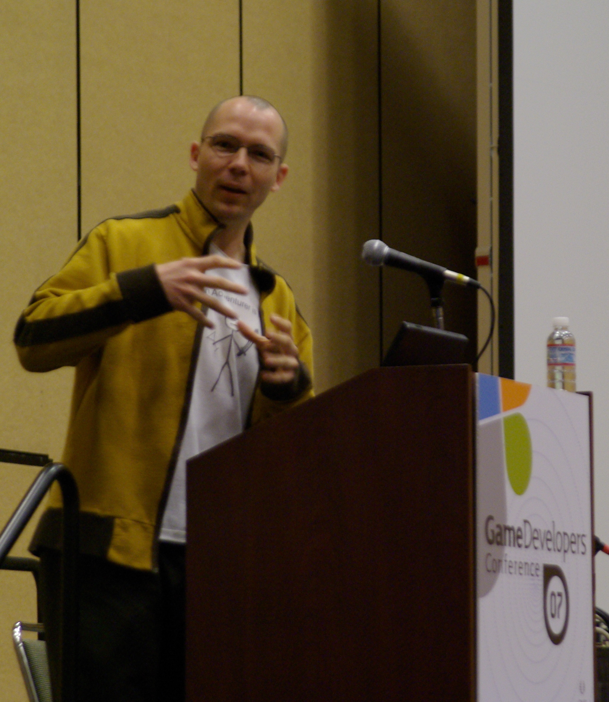 Photograph of game developer Jonathan Blow at the GDC 2007 conference